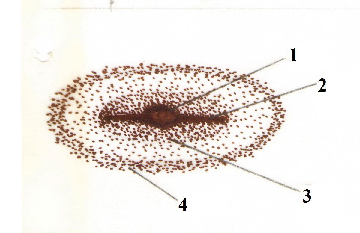 Hubble Galaxy Type SB0 Description